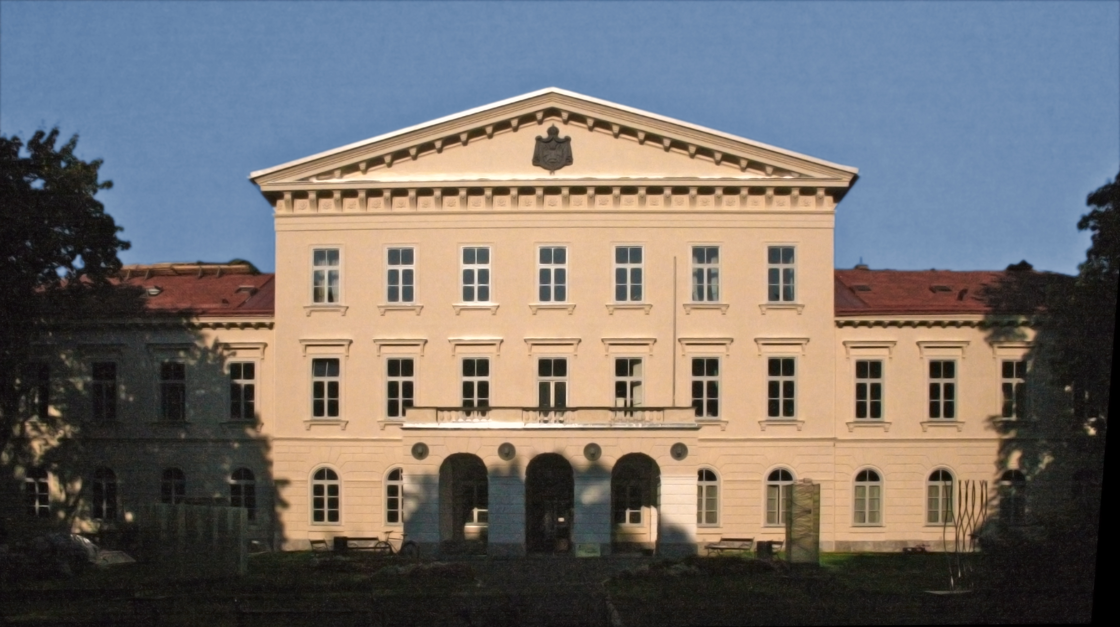 University of Arts, Graz, Austria, Europe